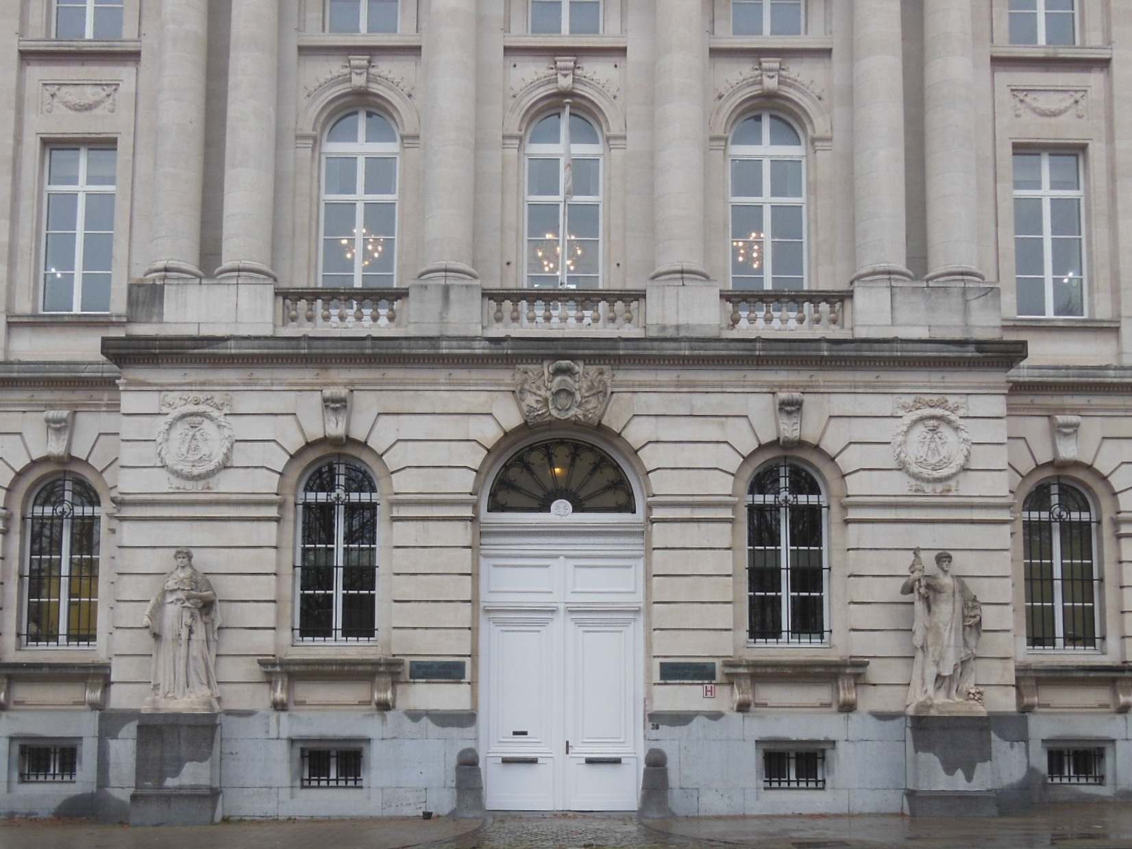 Statues of the Roman deities Mars and Minerva flanking the entrance to the Royal Military Academy, Belgium